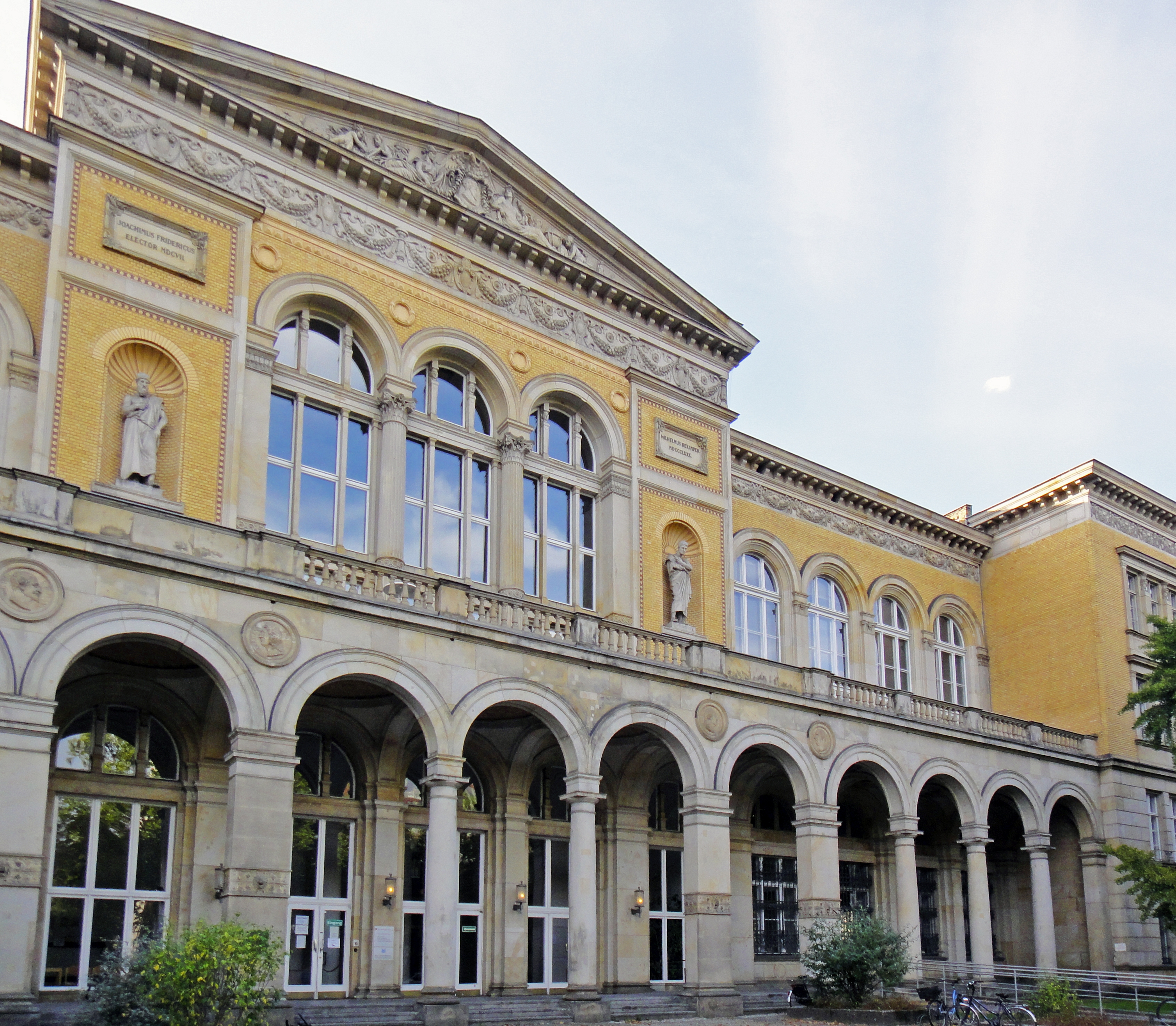 Former building of the Joachimsthaler Gymnasium school.